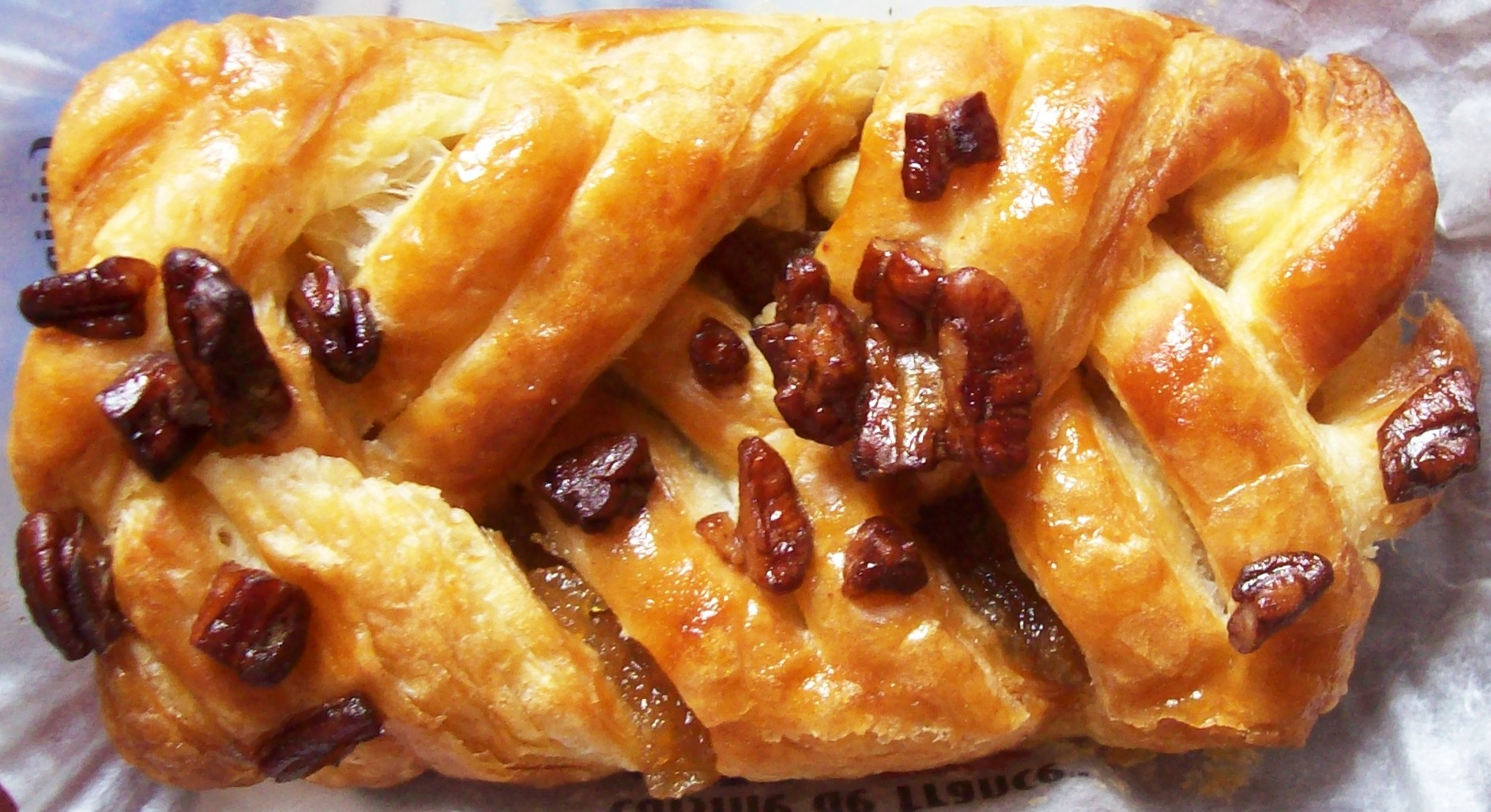 A Pecan and Maple Danish, made by Cuisine de France